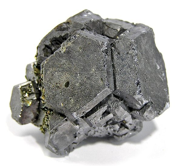 Galena Locality: Picher Field, Tri-State District, Ottawa County, Oklahoma, USA (Locality at ) Size: 3.9 x 3.4 x 2.5 cm. Look how unusual this cluster of Oklahoma galena is! Each individual crystal has formed in an uncommon hexagonal form, and they have grown together almost into the form of a soccer ball! You can see a little bit of golden chalcopyrite as well.